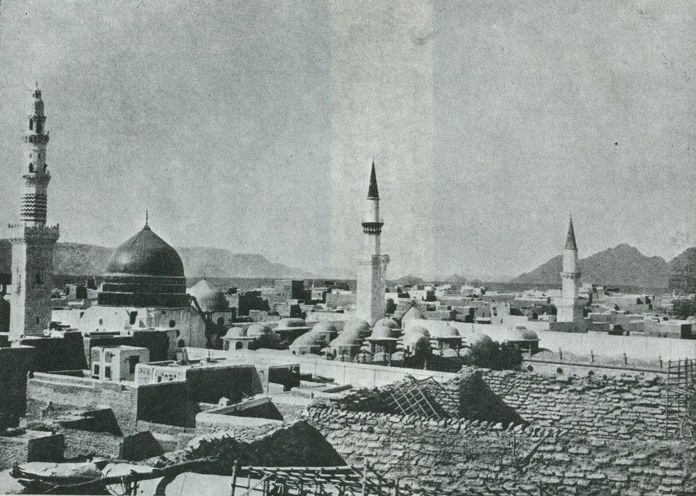 Old Al-Masjid Al-Nabawi (1908), Medina.